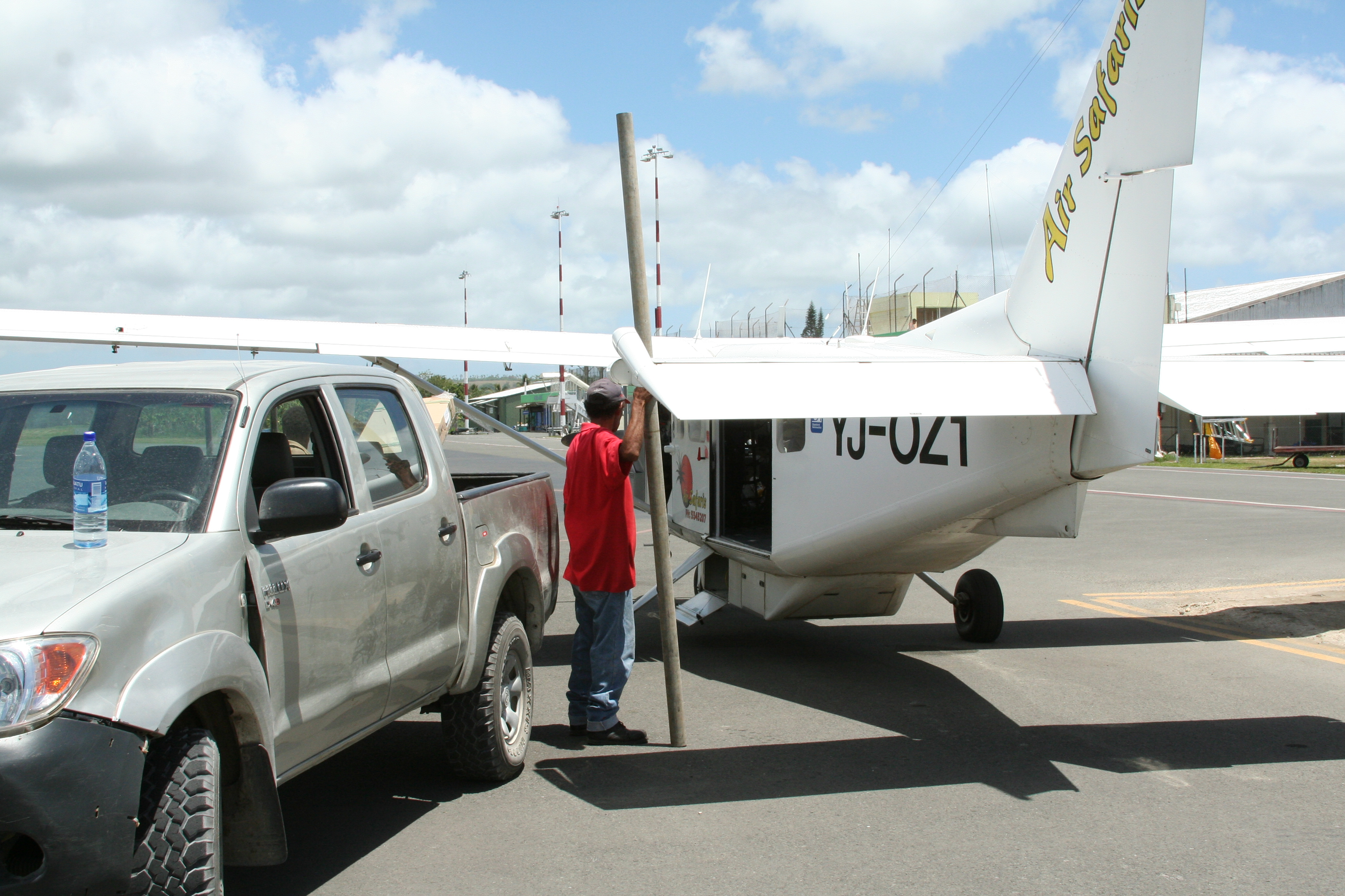 Air Safaris GA8 Airvan (YJ-OZ1) at Bauerfield International Airport